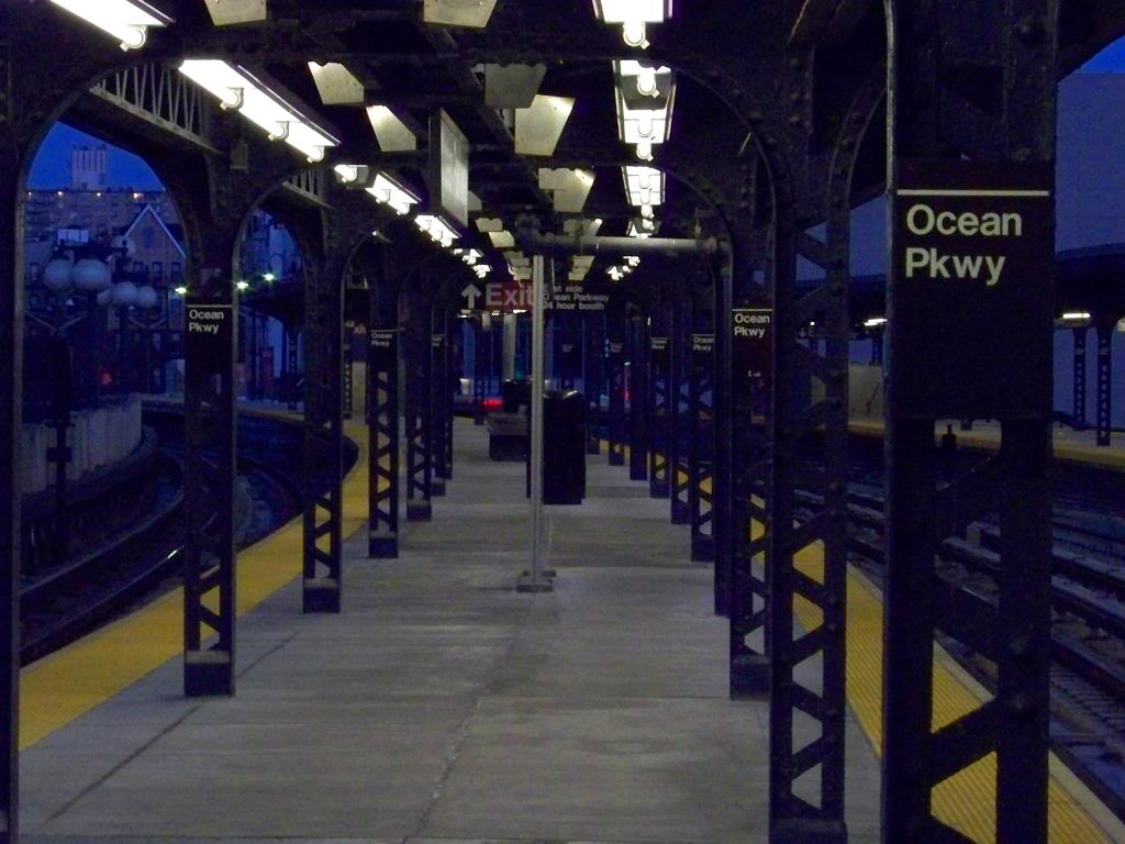 Ocean Parkway Subway Station as seen from the Coney Island-bound Platform